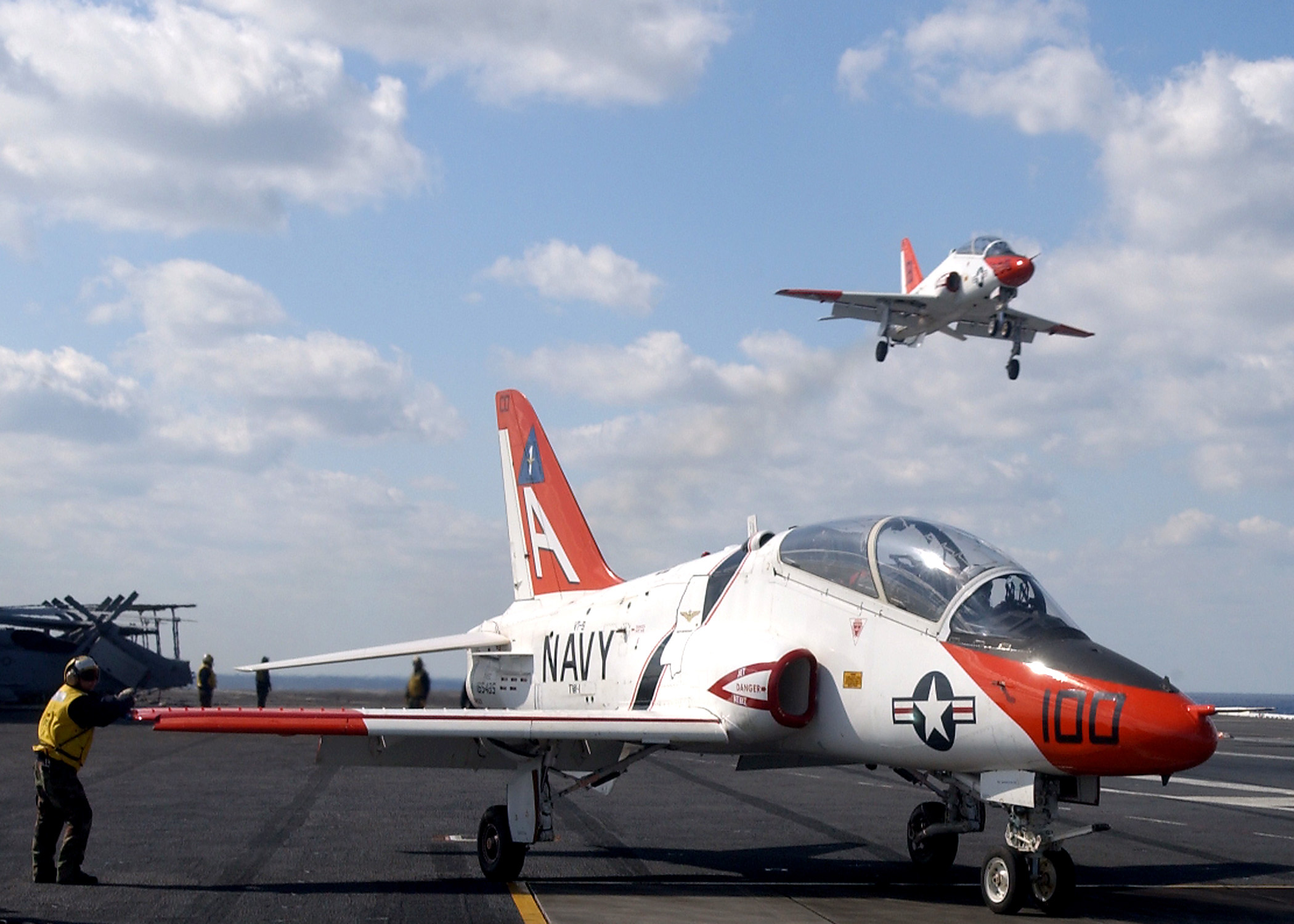 US Navy.T-45_Goshawk trainer. 080309-N-7571S-005 ATLANTIC OCEAN (March 9, 2008) A TW-2 (Kingsville) T-45 Goshawk training aircraft is waved off from making an arrested landing aboard the aircraft carrier USS Theodore Roosevelt (CVN 71). The T-45 is used for intermediate and advanced portions of the Navy and Marine Corps pilot training program for jet carrier aviation and tactical strike missions. Roosevelt is conducting carrier qualifications in the Atlantic Ocean. U.S. Navy photo by Mass Communication Specialist 3rd Class Jonathan Snyder (Released)